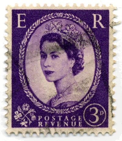 Scan of United Kingdom 3-pence stamp of 1952